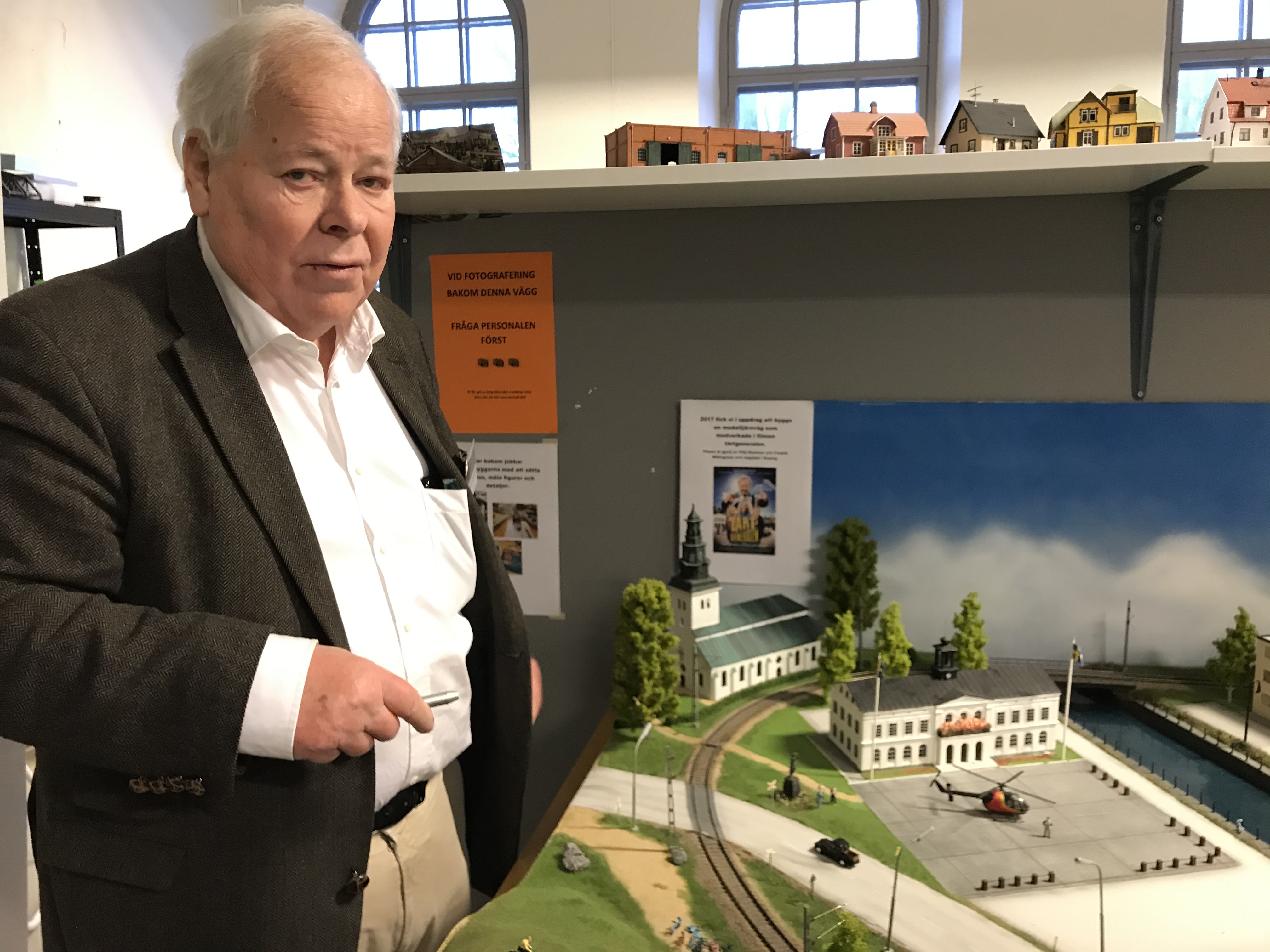 Staffan Anger in Miniature Kingdom in Kungsör, Sweden, 2019